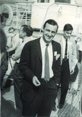 Mathematician Patrick Paul Billingsley in New Orleans, 1961.